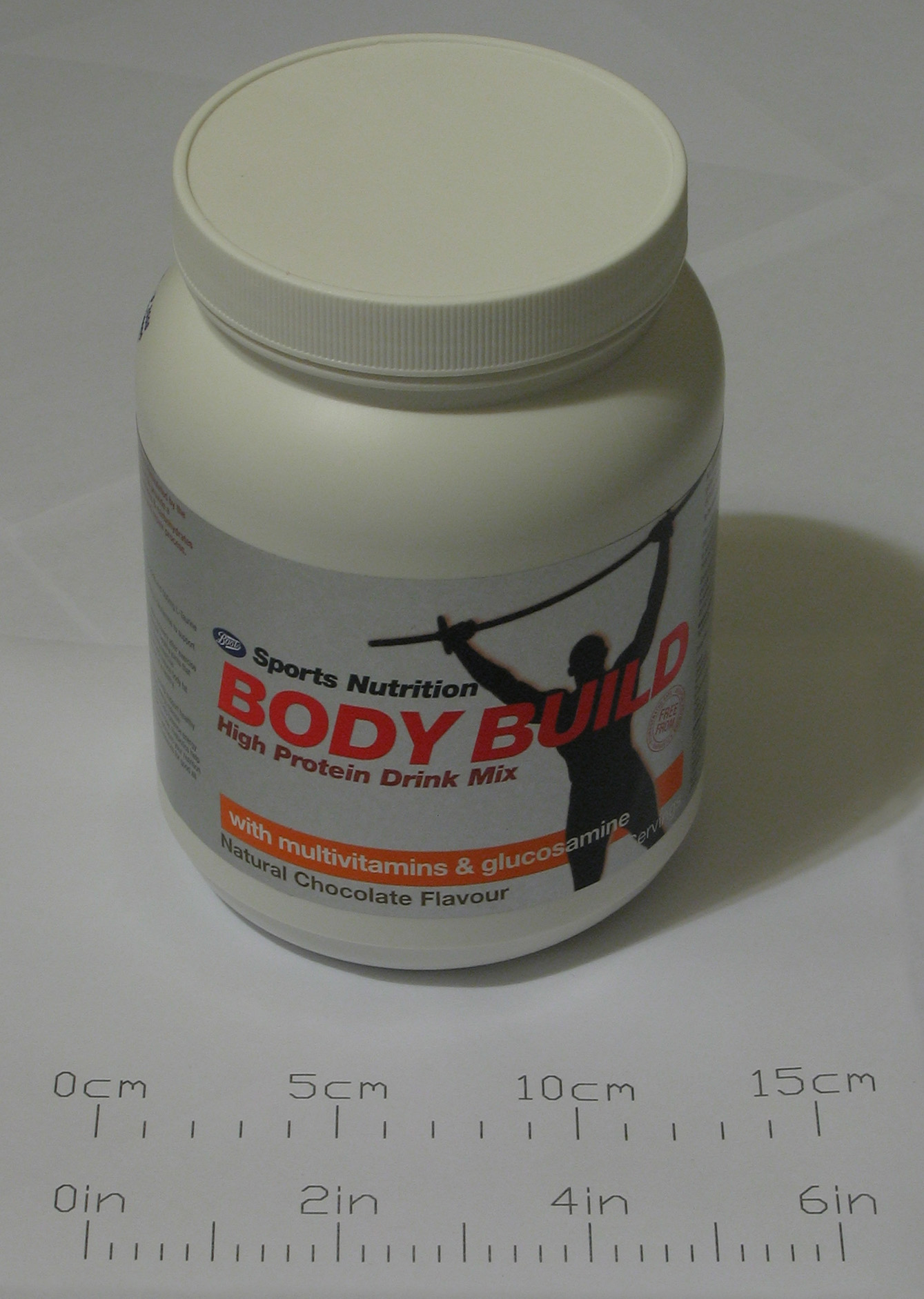 This bodybuilding supplement contains whey protein and creatine monohydrate, as well as vitamins and other supplements.